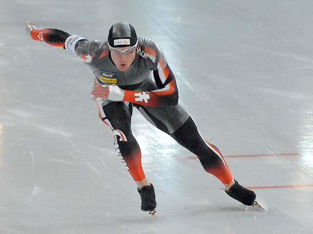 Jeremy Wotherspoon at the 2008 World Cup in Hamar.